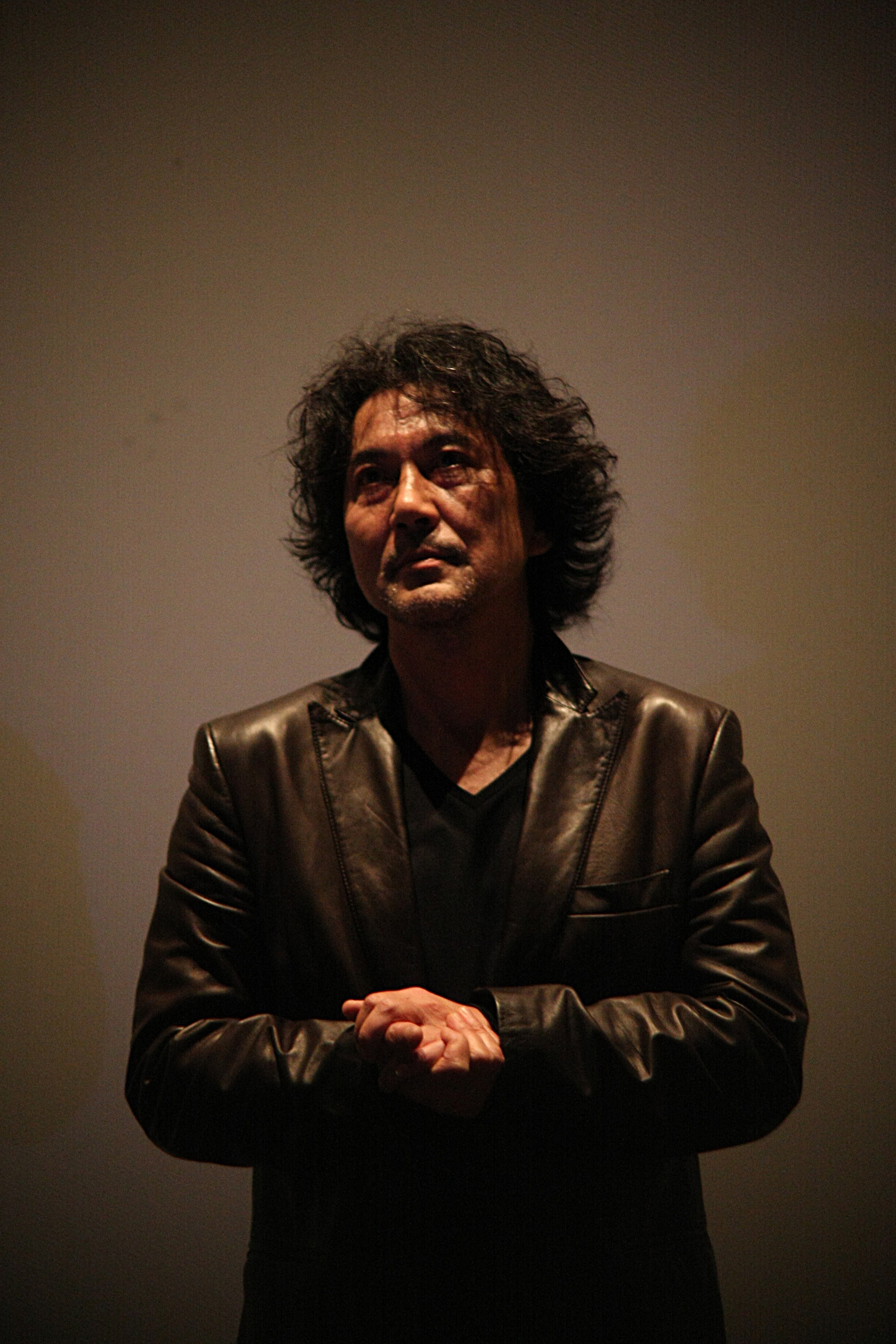 Originally, Yakusho Koji was supposed to play the protagonist in the film only, but since he contributed a significant portion of the story, when the original director left the project, he took the helm and made the movie truly his own.